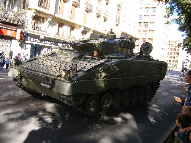 Pizarro IFV in Madrid. My own work.